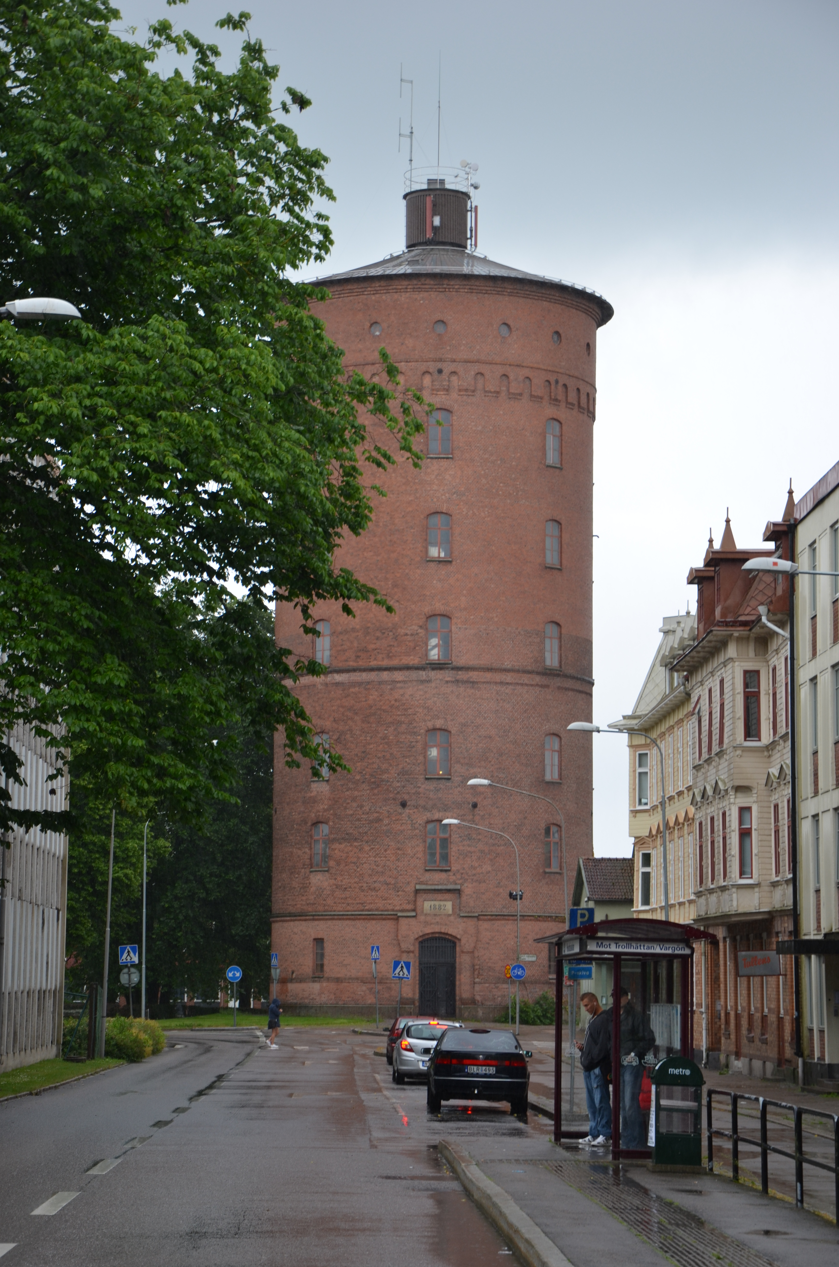 Old water tower in Vänersborg, Sweden. Byggnadsår 1882. Arkitekt August Krüger. Senare påbyggt